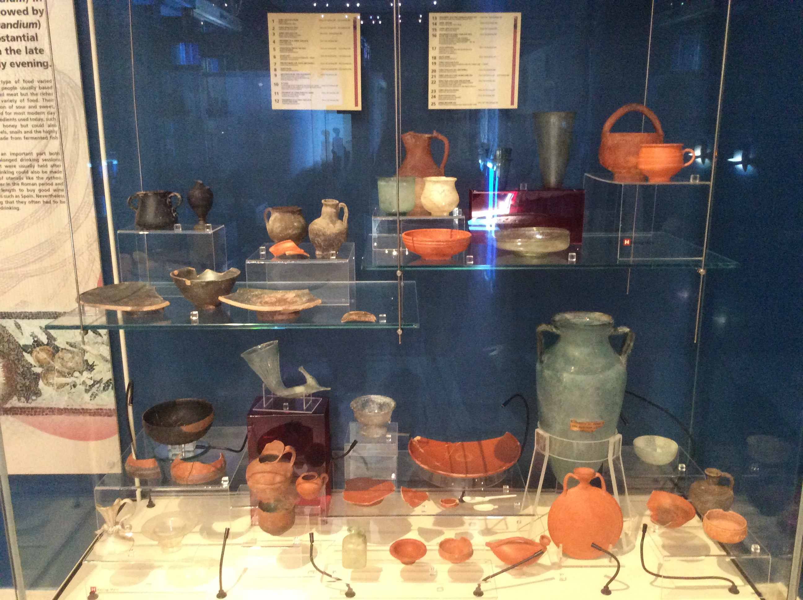 Domus Romana roman objects